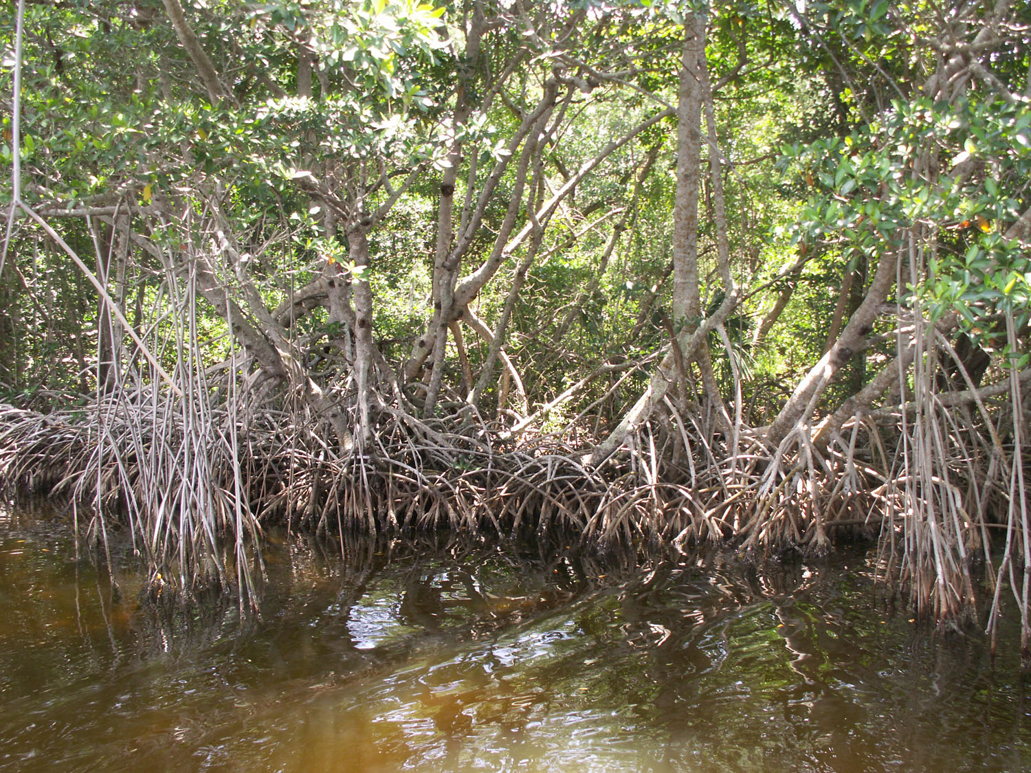 Red mangrove trees along the Buttonwood Canal near Flamingo in Everglades National Park